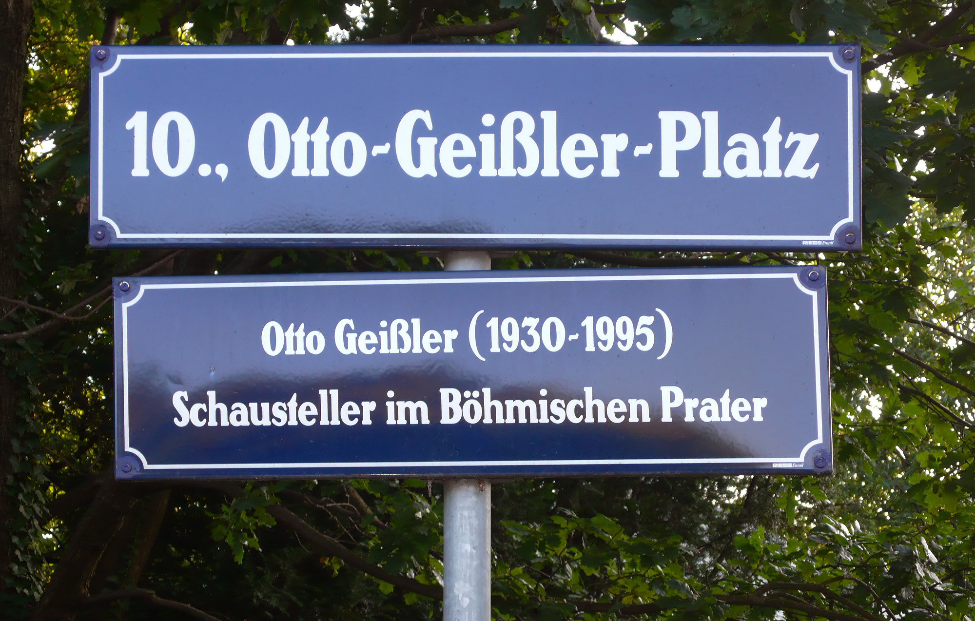 Otto Geißler Platz in Vienna, 10. district